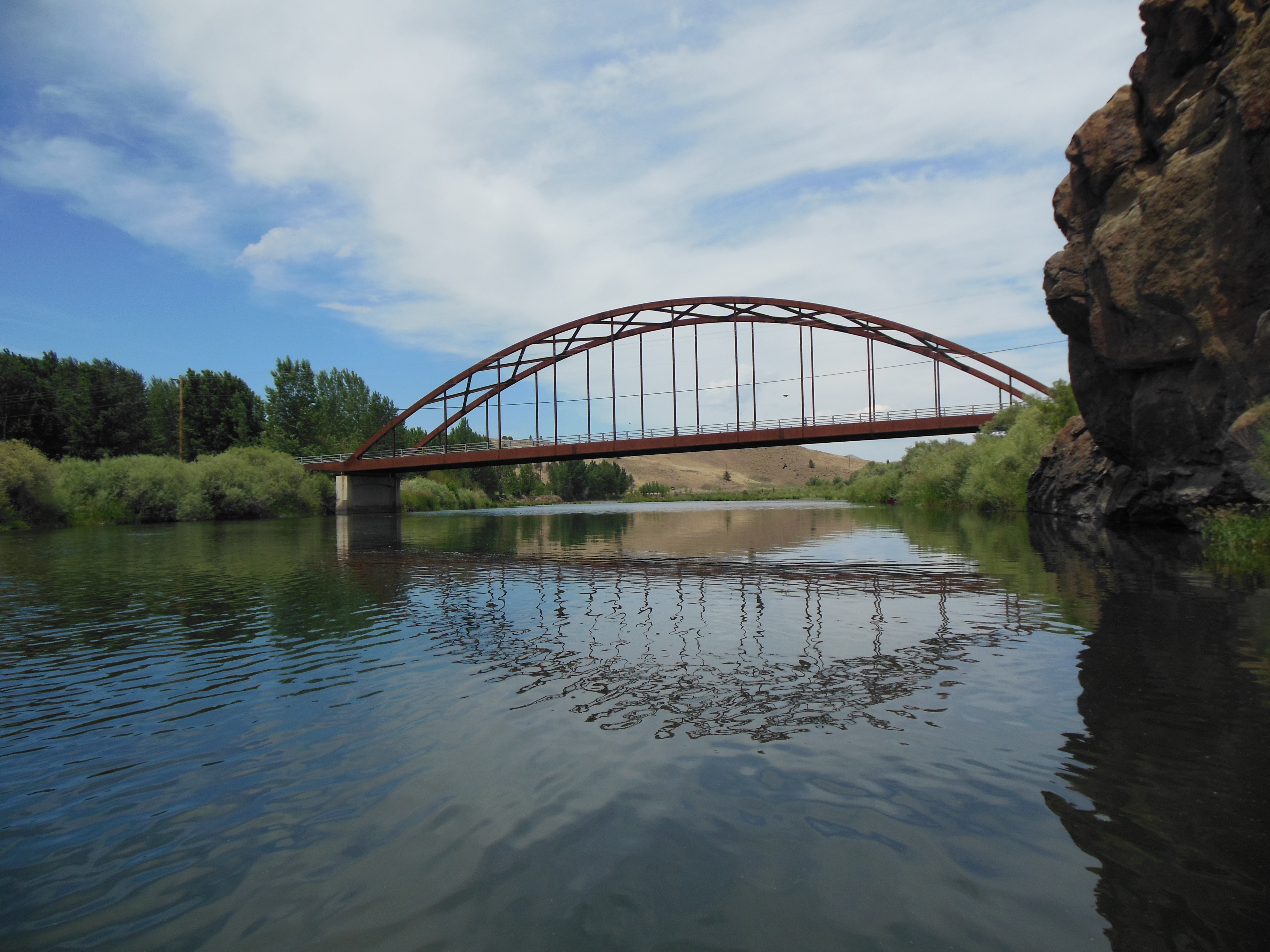 Bridge over the John Day River on Oregon Route 218 at Clarno Recreation Site in Wheeler County, Oregon, United States